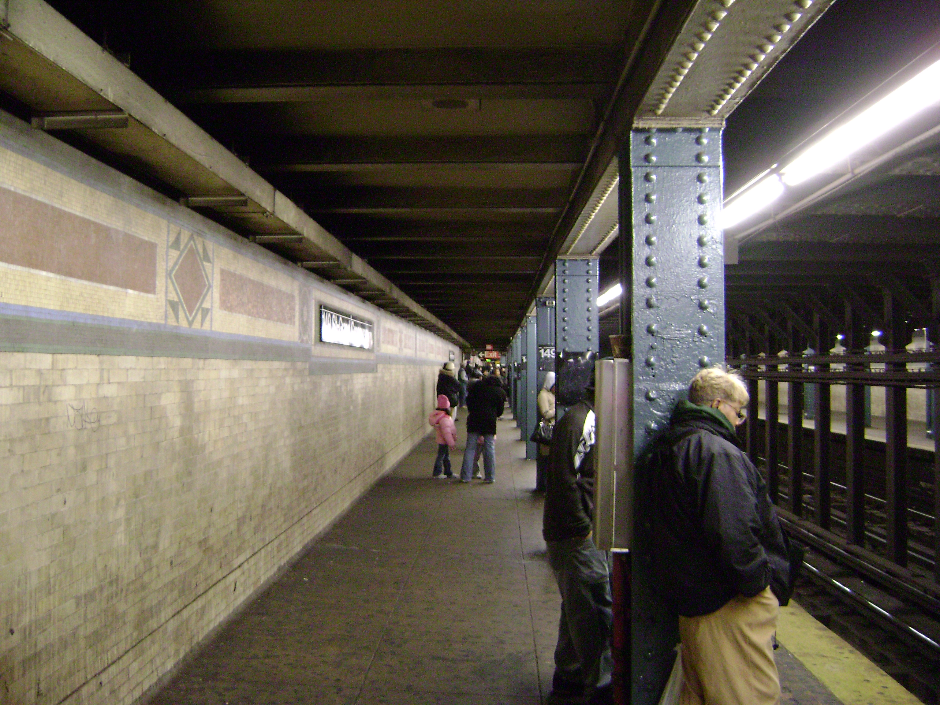 The 149th Street-Grand Concourse subway station.